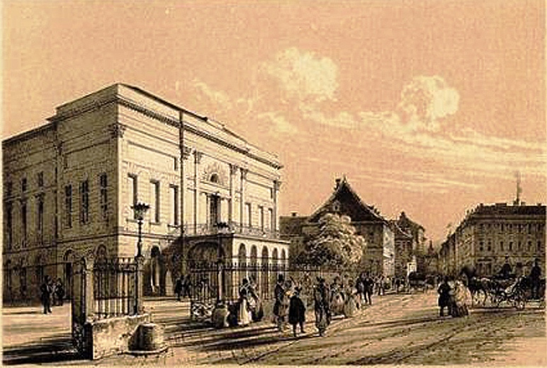 The old building of the Hungarian National Theatre. Built in 1837, as Pest City Theatre, taken over by the state in 1840 as National Theatre. The building on the drawing will be rebuilt in 1875, then closed in 1908.